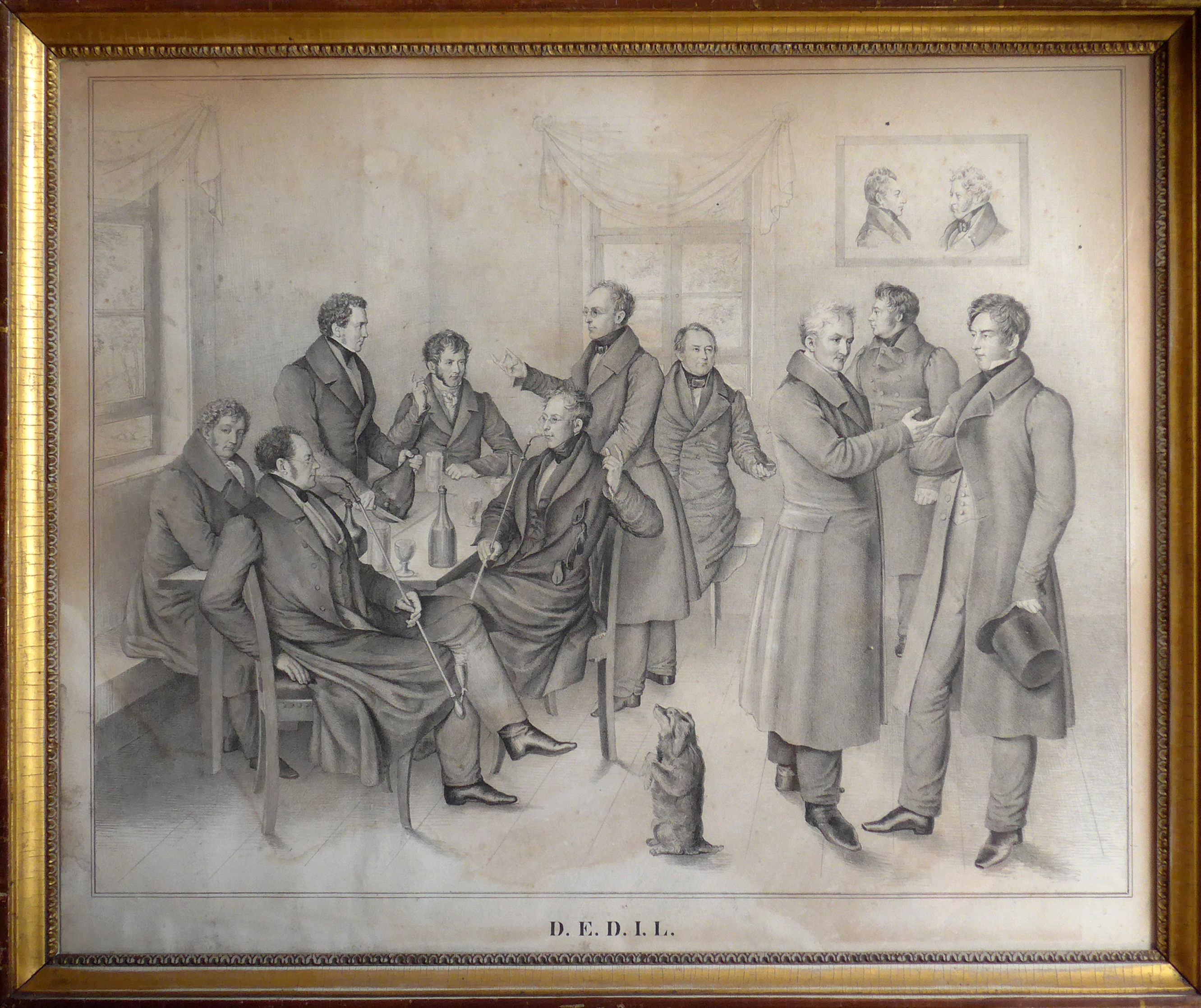 Johann Wilhelm Sältzer], Rath May, Louis Teysson, Prof. Müller, factory owner Karl Eichel.